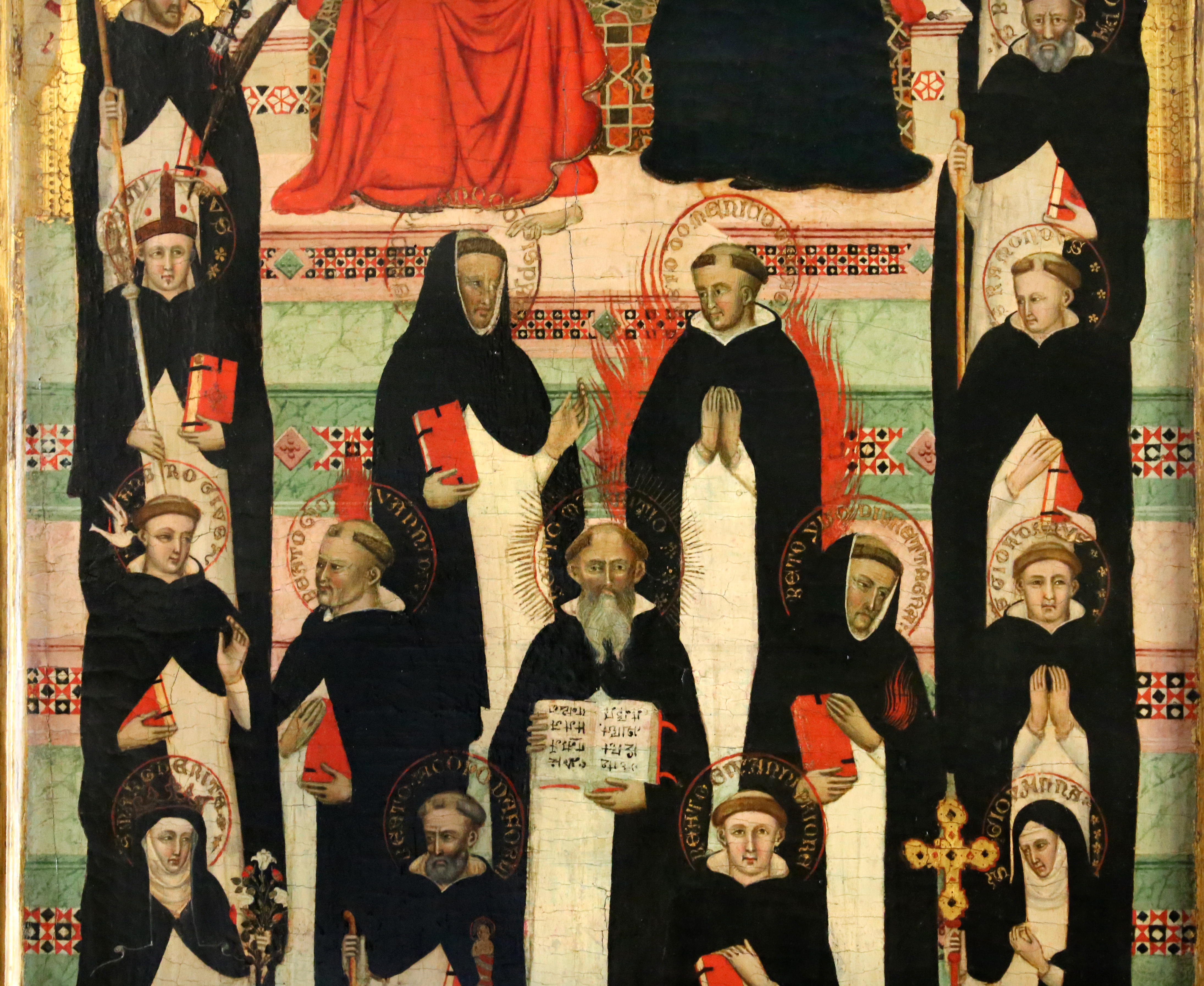 Santa Maria Novella - Convent